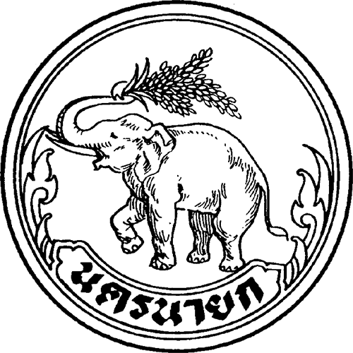 Provincial seal of the Nakhon Nayok province, Thailand.